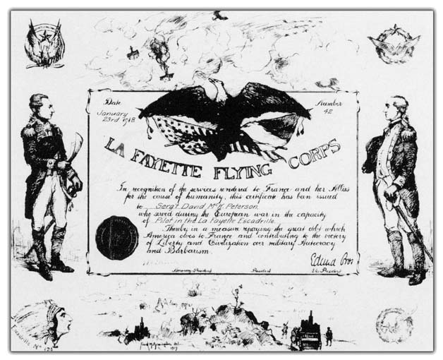 Lafayette Flying Corps service certificate issued to Esc. SPA 124 Sgt. David M. Peterson. Upon Dr. Edmond Gros’s certification of his faithful service to France, Peterson and each Lafayette Escadrille and Lafayette Flying Corps pilot would then become the recipient of the Lafayette Flying Corps service certificate. This handsome document measured approximately 17” x 19” and was individually numbered to each pilot (New England Air Museum).